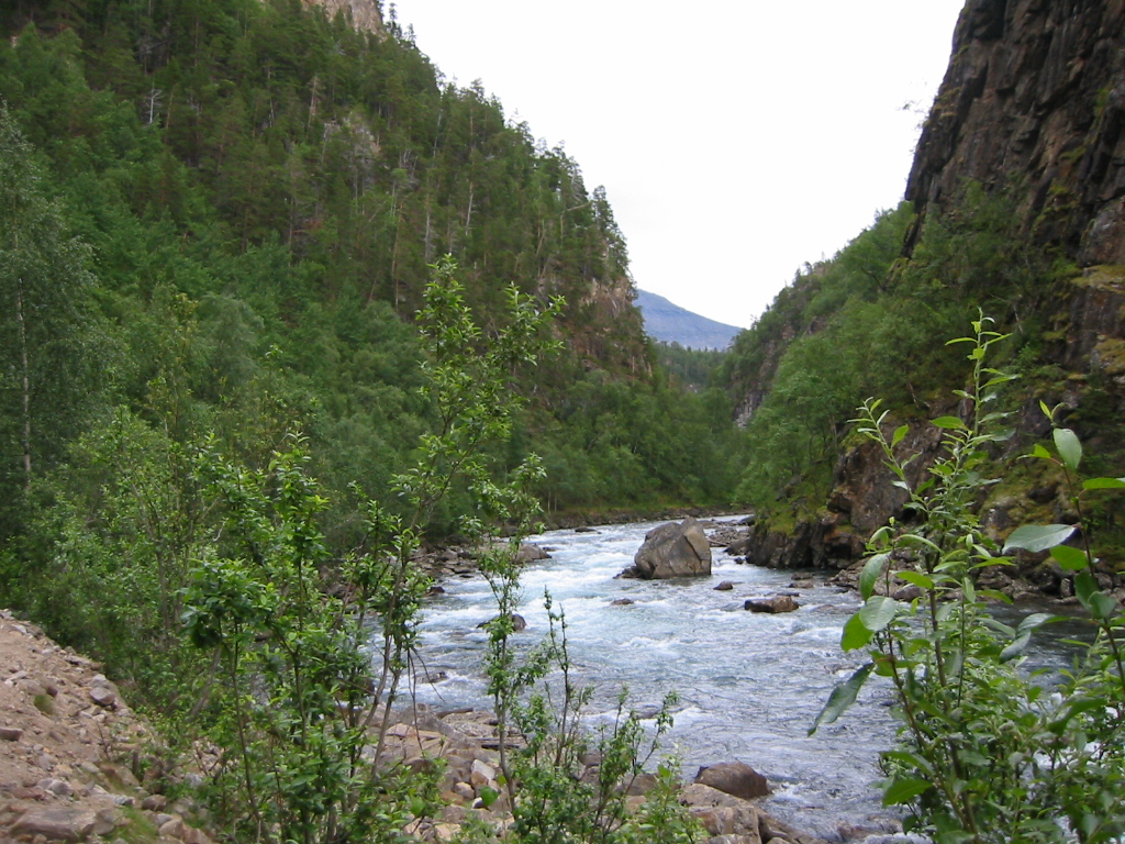 Part of the Junkerdalen Nature Reserve and Junkerdal river, Saltdal municipality, Nordland, Norway. This sheltered valley has a rich flora with both arctic-alpine plants (particularly at somewhat higher ground) and unusually many southern species in the lower part of the valley.